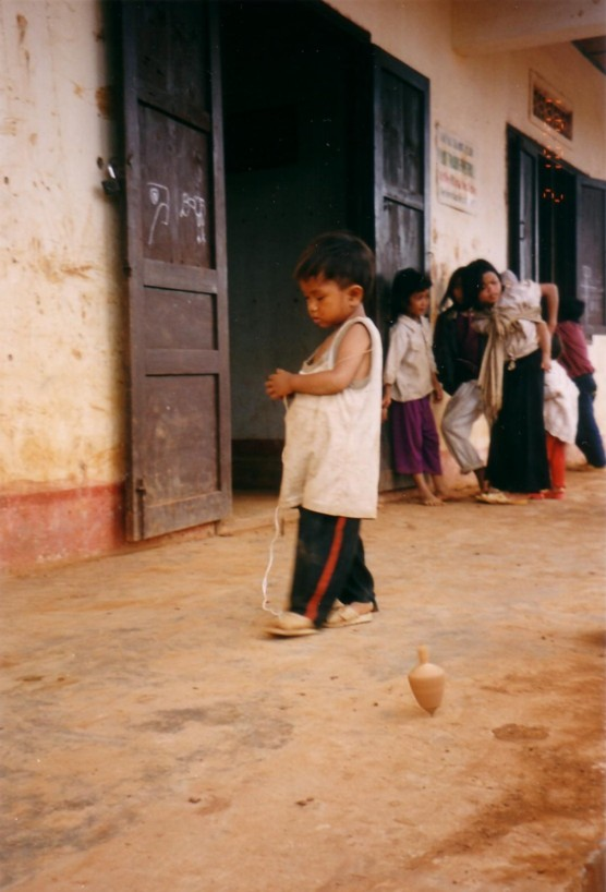 A kid playing driedel in a village near Dalat, Vietnam